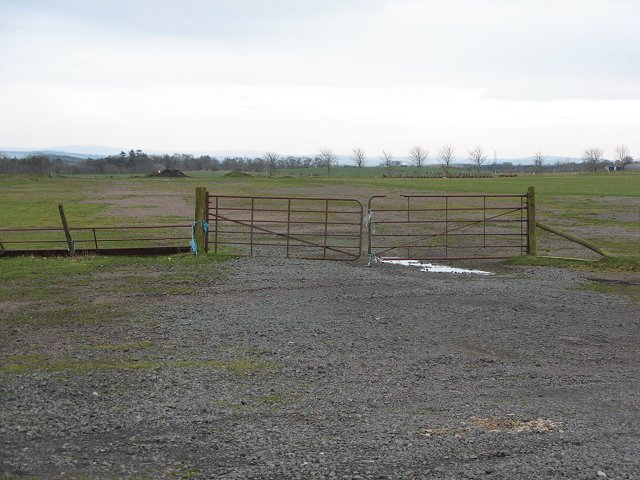 Charterhall airfield A former RAF airbase it is still open as an airfield, although pilots are asked to check with the farmer before flying in, in case of livestock on the runway. The photo shows a disused runway from the perimeter road.